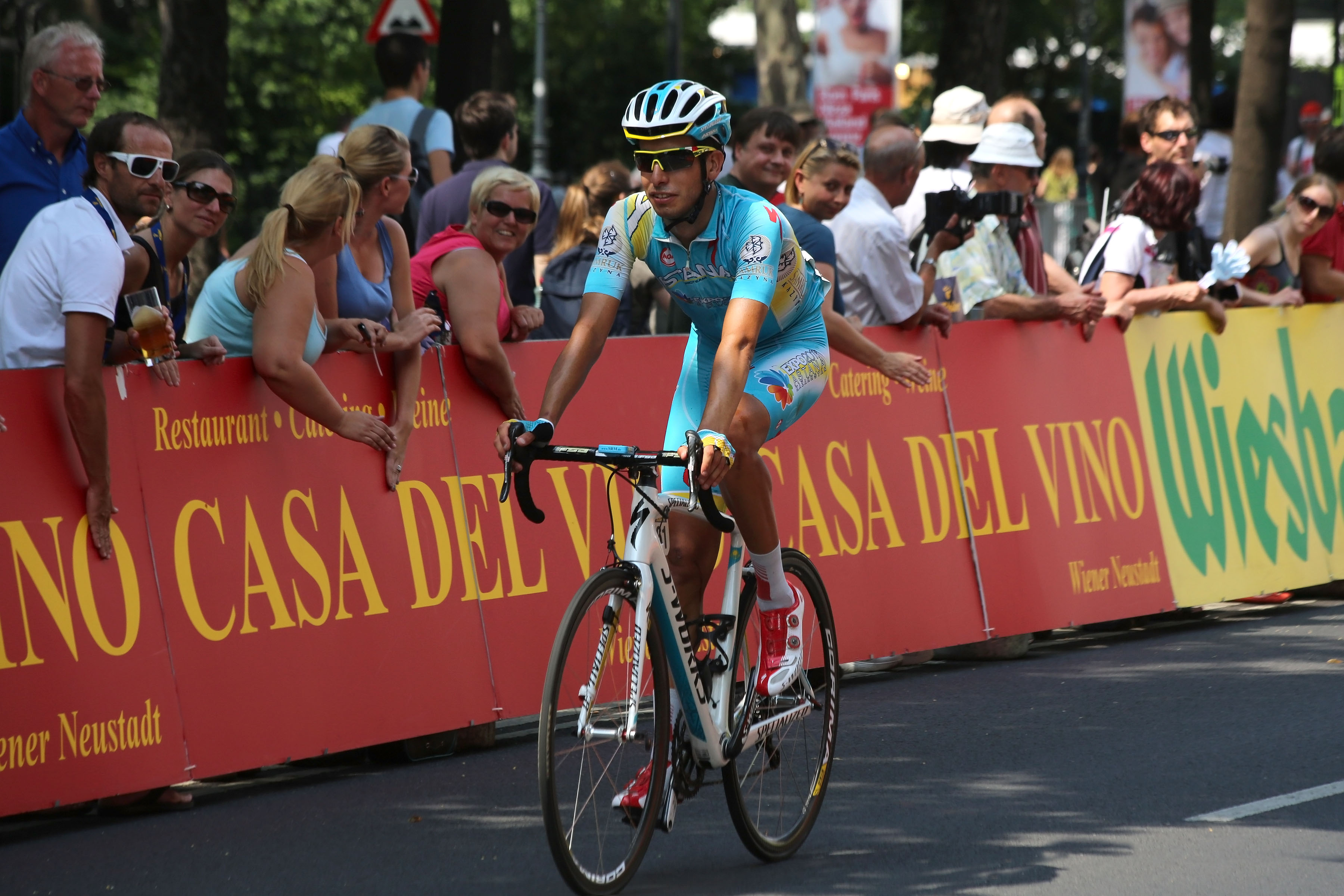 Fabio Aru after finishing the final stage of the Tour of Austria in Vienna, Austria.